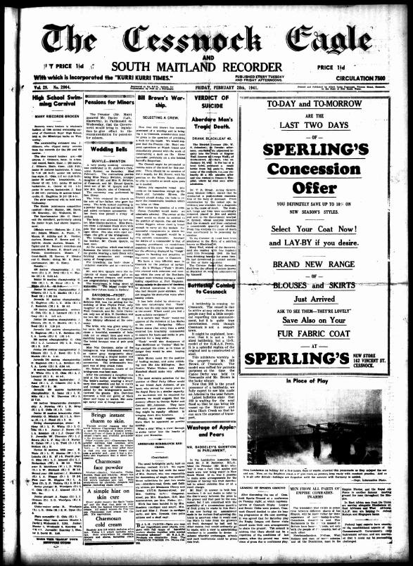 Old Australian newspaper cover page.